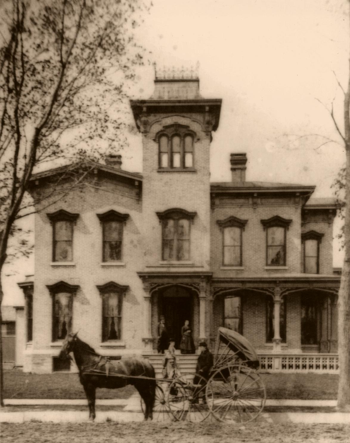 An undated photograph of the Farnam Mansion - circa 1880.